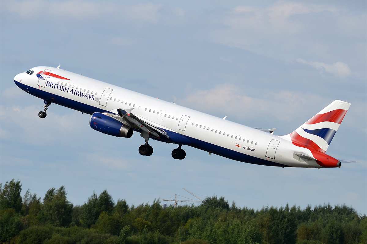 British Airways, G-EUXC, Airbus A321-231